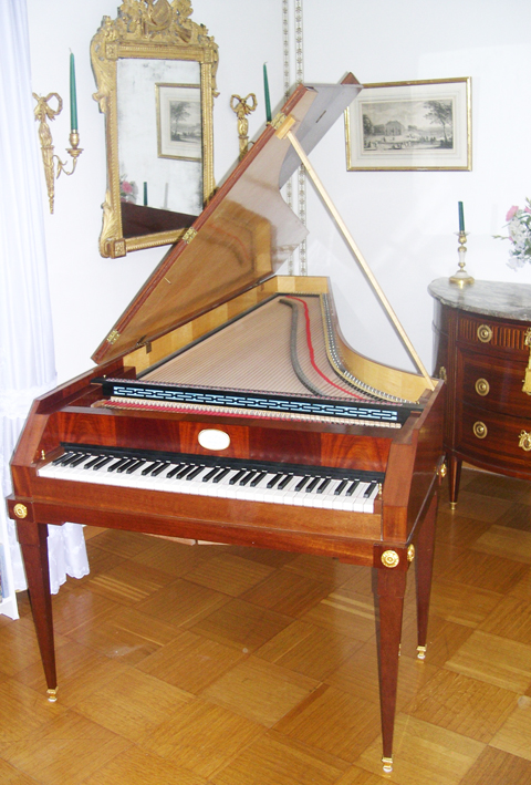 Piano by Paul McNulty, 20th or 21st-centurycopy of an instrument by Anton Walker, 1795